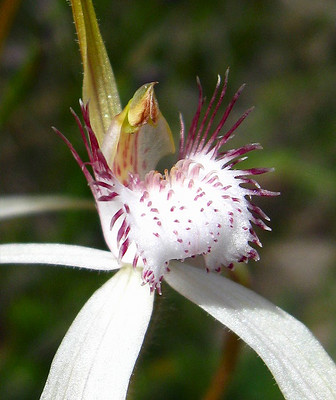 Caladenia longicauda subsp. calcigena White Spider Orchid. These beautiful spider orchids have very elongated sepals and petals and a ghostly white colouration. These were found in Wireless Hill, Perth, where I visited on the weekend to have a poke around with Farhan and Jason and boyfriend.